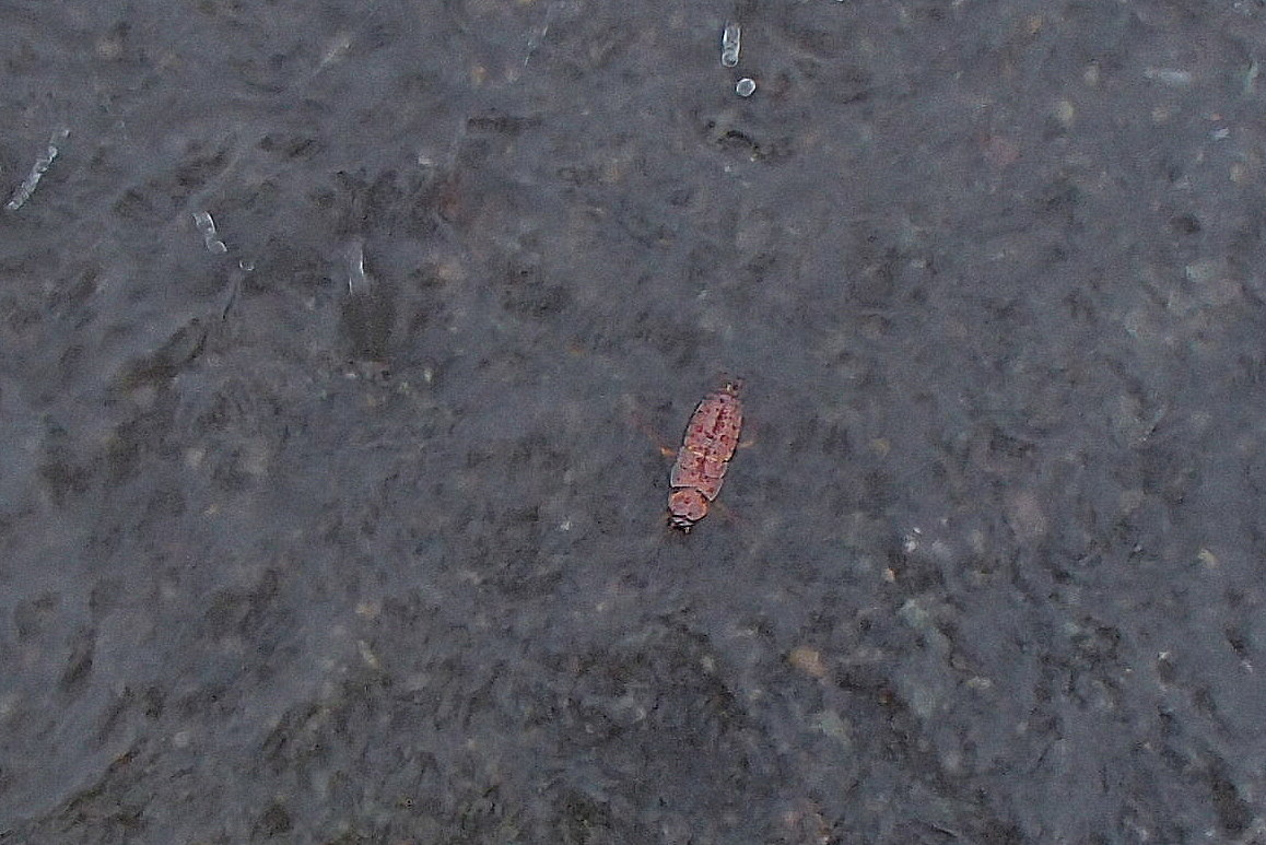 Cockroach in Vietnam